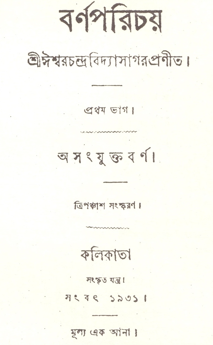 Cover page of bengali Barnaparichaya